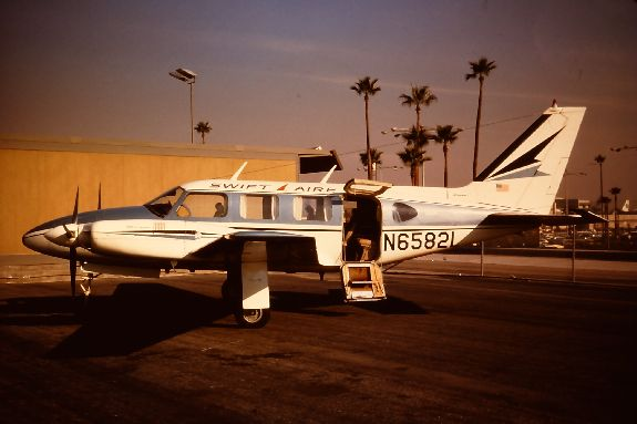 Manufacturer: Piper Designation: PA-31 Navajo Airline: Swift Aire Lines Serial Number: N6582L